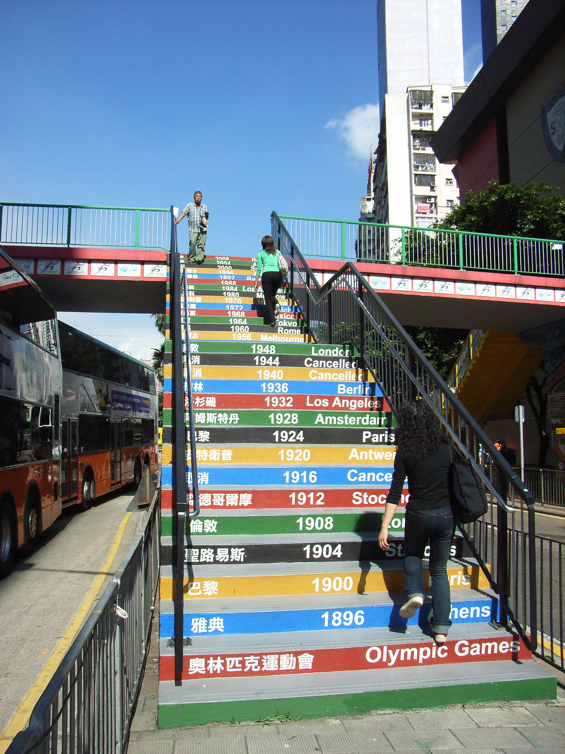 Author= Peter George MIX 禮頓道北端zh:行人天橋為紀念歷屆奧林匹克運動會.